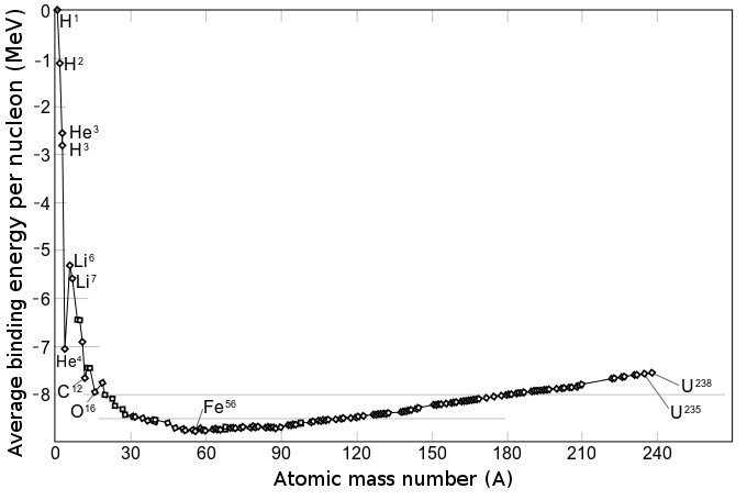 The negative of binding energy per nucleon for stable isotopes along the valley of stability.